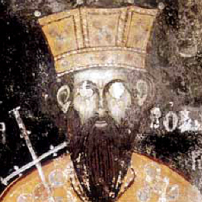 Ktitor icon of king Boris I in "St.Naum" monastery in Ohrid